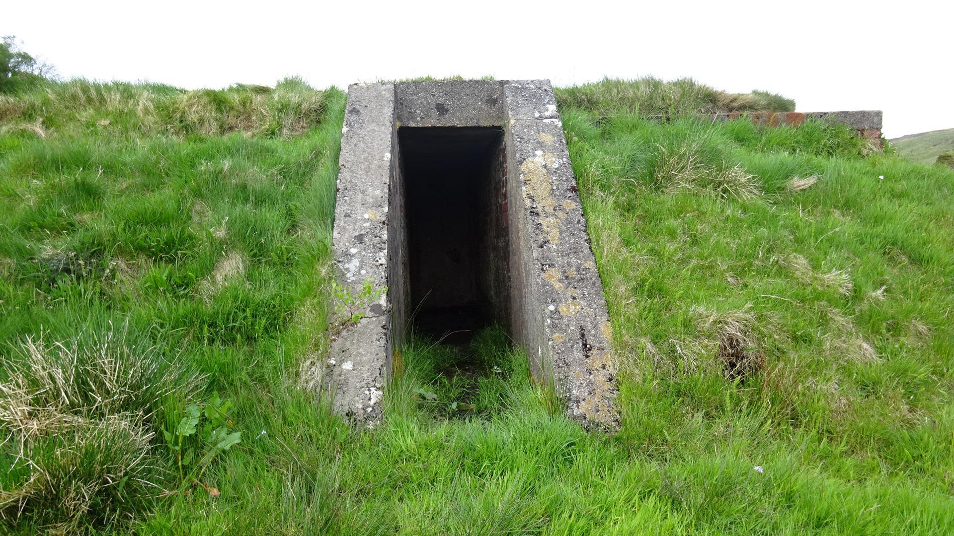 Starfish control bunker main entrance, Auchenreoch Muir, Dumbarton.